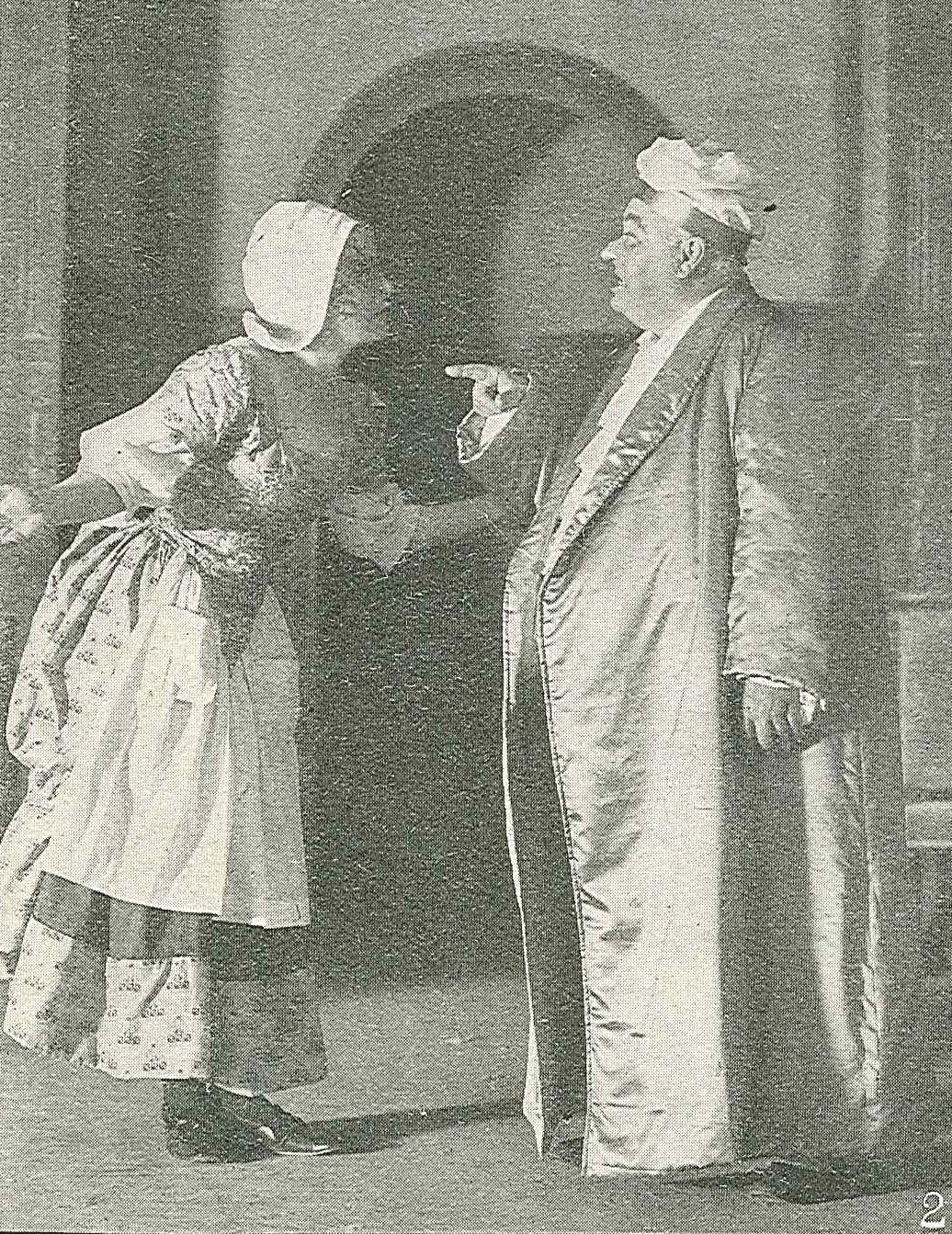 Edith Erastoff (1887-1945), Finnish-Swedish actress, and Oscar Bæckström (1854-1919), Swedish actor, in a scene from Molière's The Imaginary Invalid at Intima teatern.